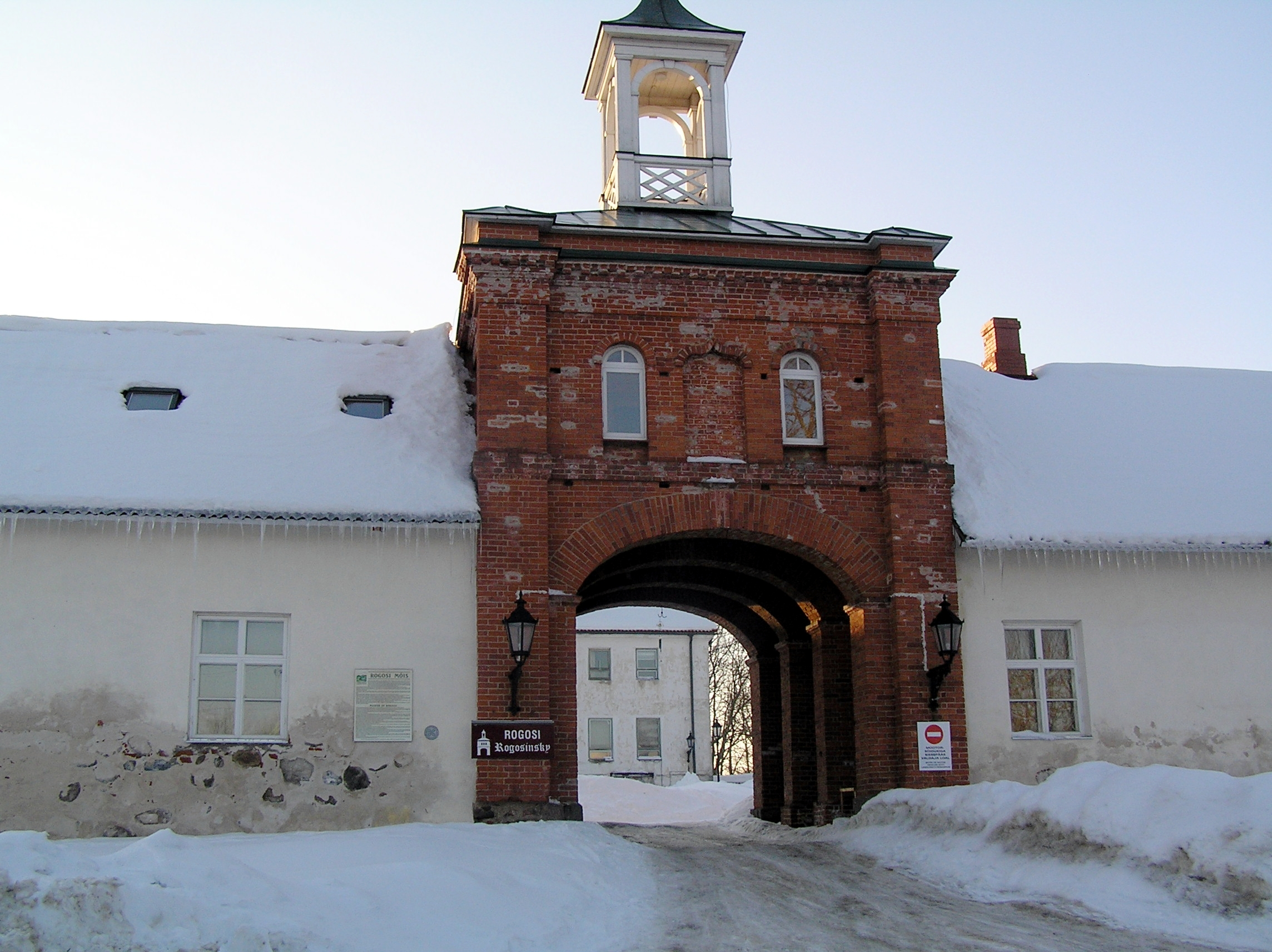 Rogosi manor